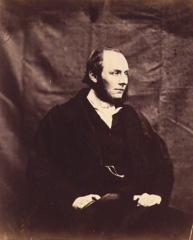 Portrait of Richard St John Tyrwhitt (1827–1895), English cleric and academic.